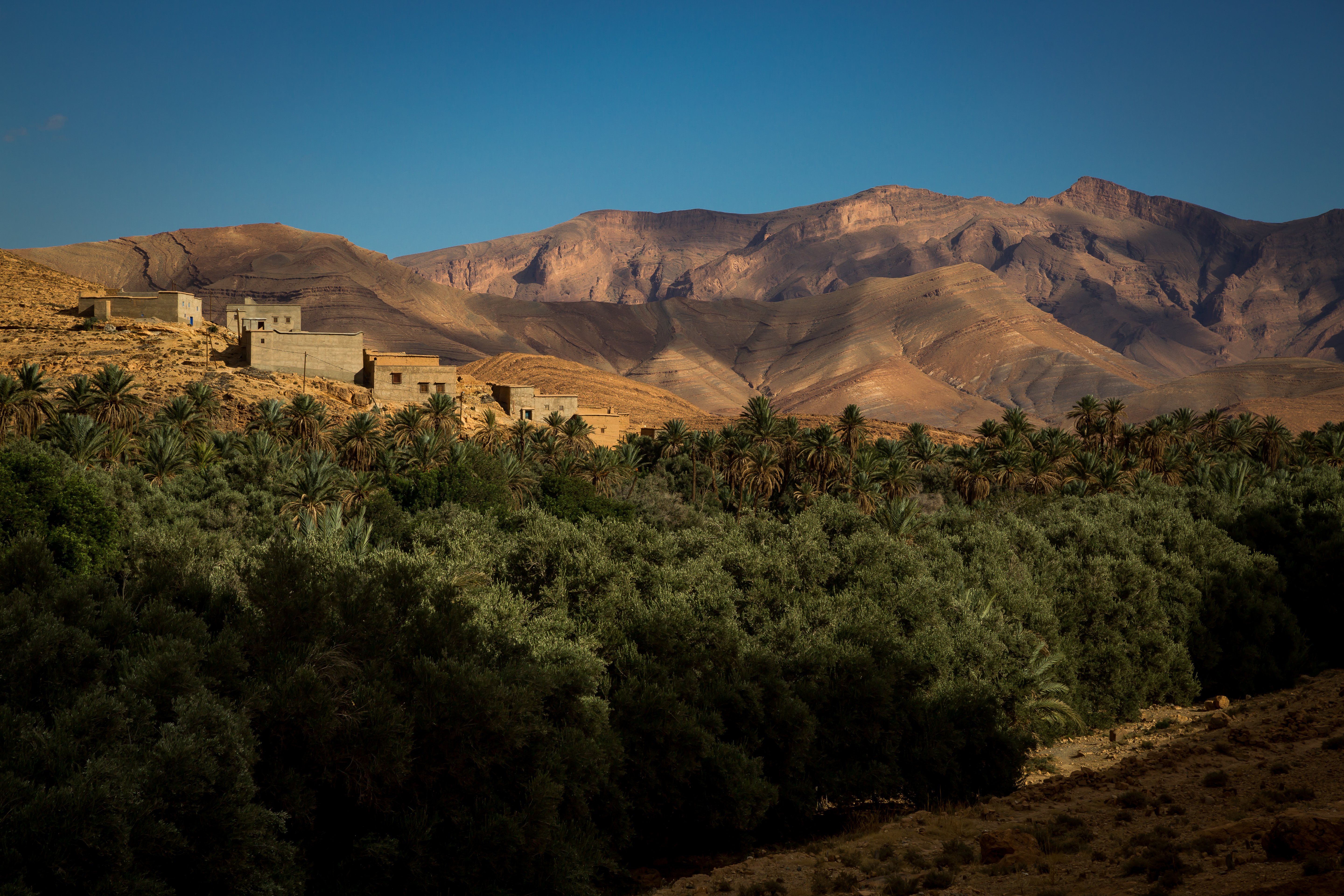 Textures of hills, clouds, palm trees and vestiges of civilization in this remote area of the Souss Masa in Southern Morocco